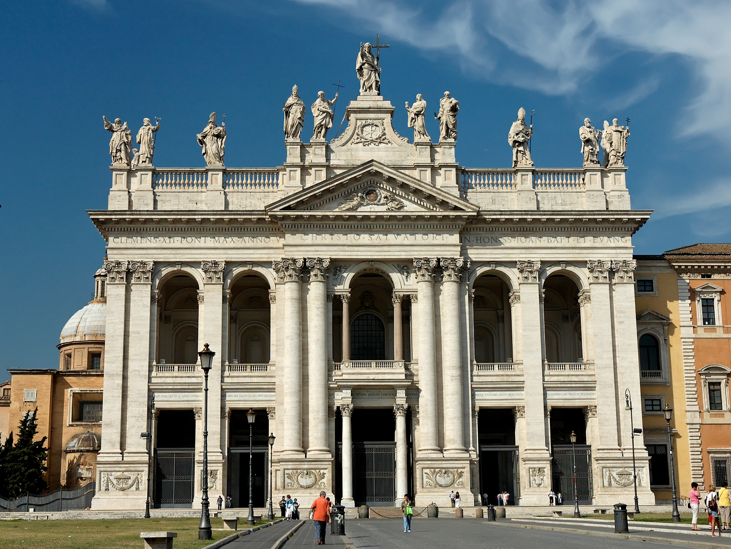 Main façade of the Basilica of St. John Lateran (Rome) by Alessandro Galilei, 1735.